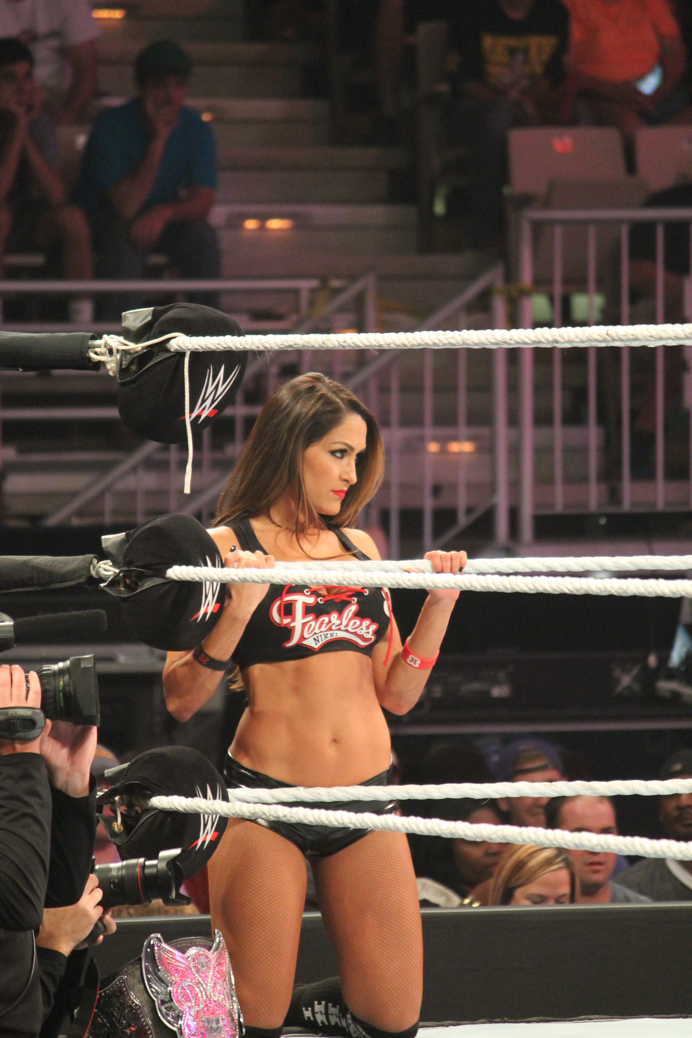 Nikki Bella watches as her tag team partner is in the ring.